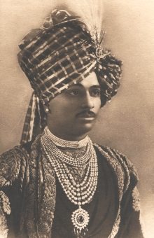 Formal portrait of HH Lakhajirajsinhji II Bavajirajsinhji, 12th Thakore Saheb of Rajkot, an Indian noble who reigned during the British Raj.